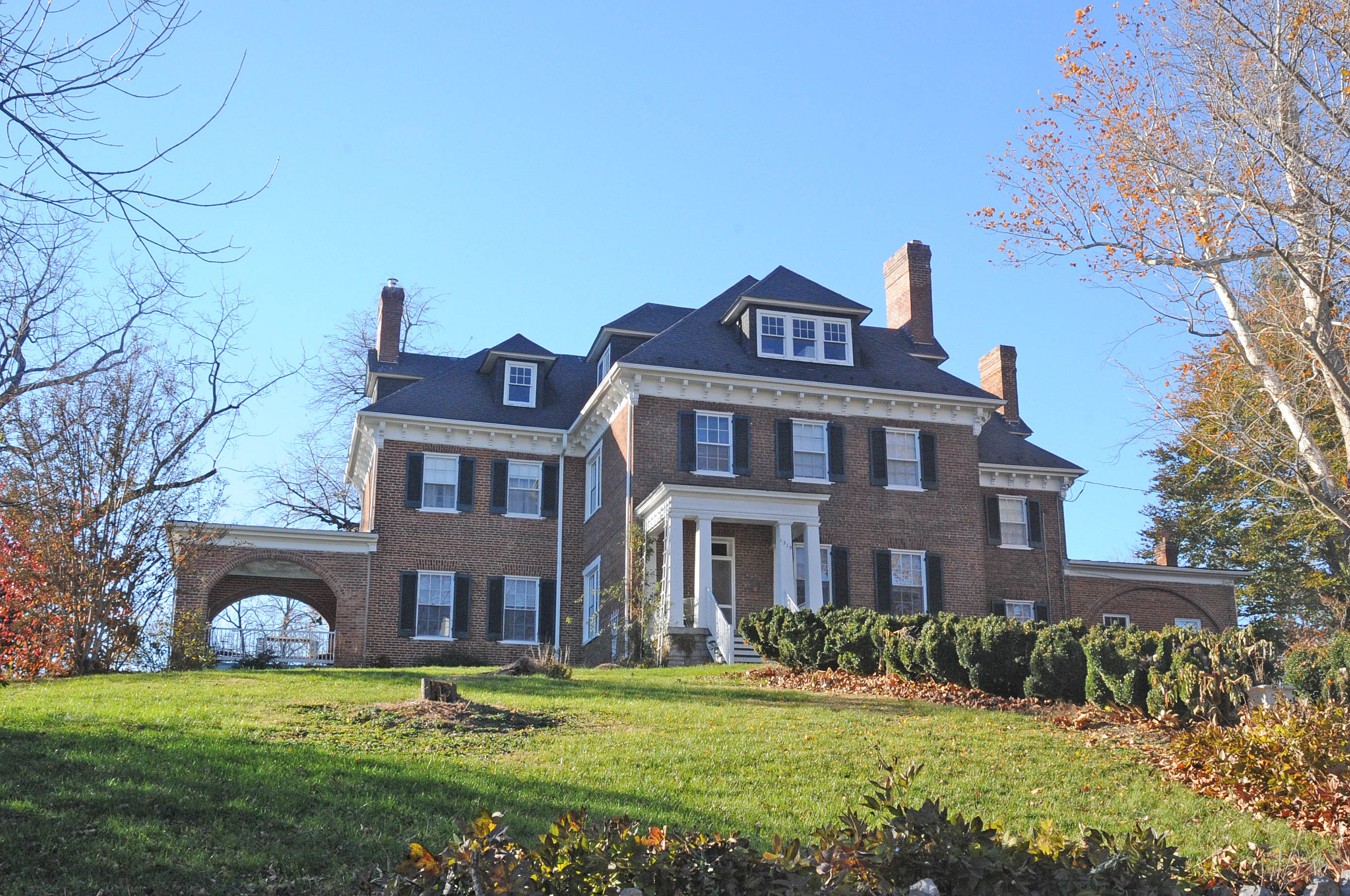 BUILT IN 1850 WITH GREEK, ITALIANATE, AND COLONIAL REVIVAL FEATURES; IT WAS BUILT BY SAMUEL SPENGLER WHO IN 1854 LOST THE HOUSE IN A POKER GAME TO MAJOR JAMES RICHARDS. THE AREA WAS DAMAGED SEVERELY IN THE CIVIL WAR AND DECLINED THEREAFTER